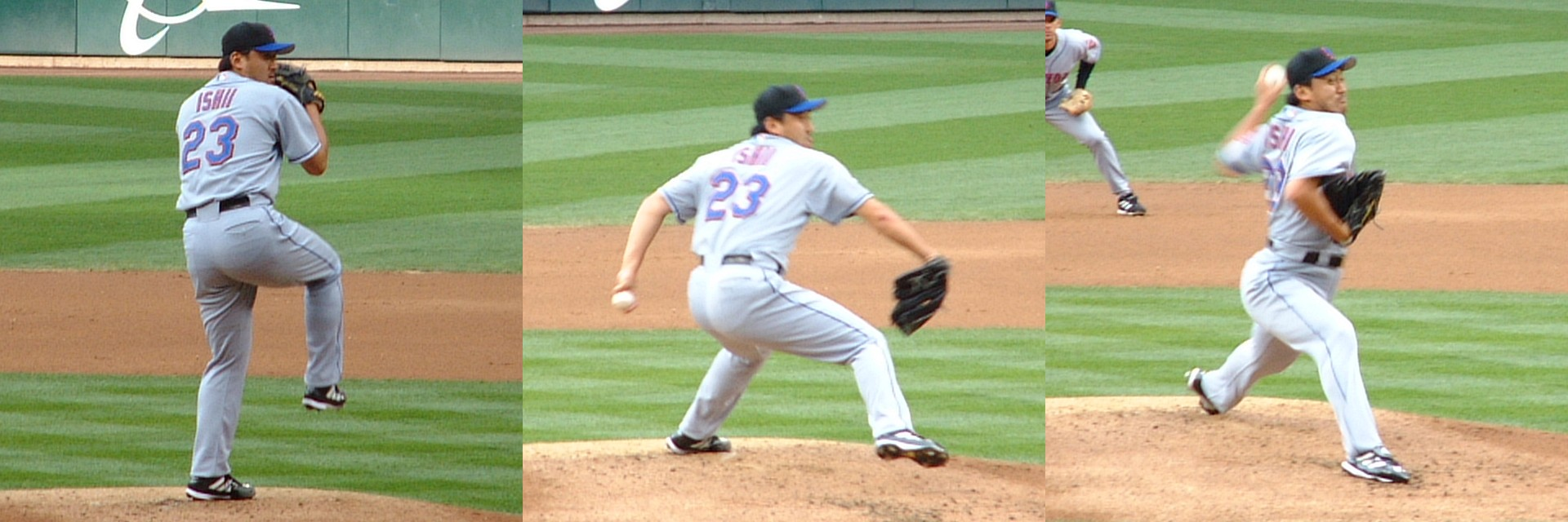 Pitching motion of the former Met, Kazuhisa Ishii Taken by authur on June 17, 2005 at Safeco Field, Seattle. The camera used is Fujifilm Finepix 4900Z, the software for edit is Photostudio for Macintosh. The varification can be done comparing the leftmost image with K_Ishii.JPG on Commons.